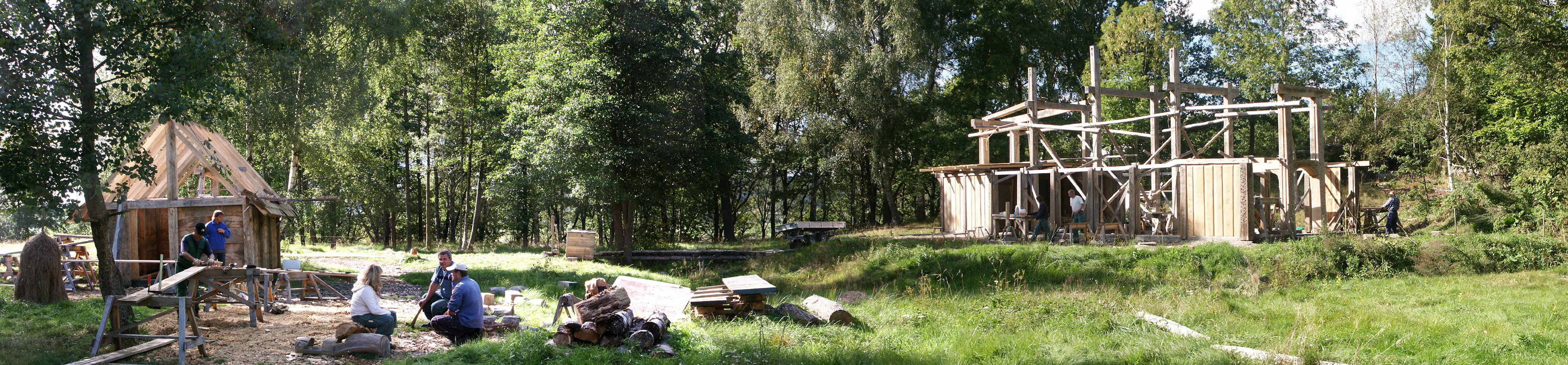 Recontructed Viking farm in Sweden